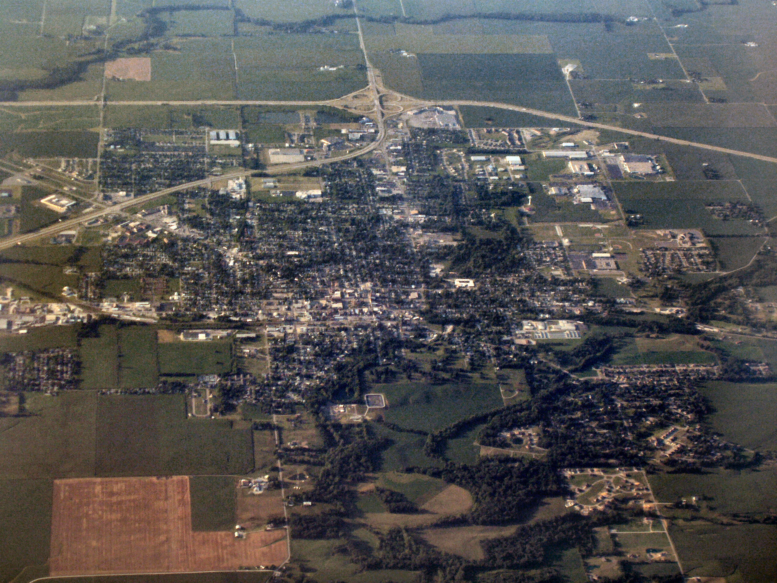 Greensburg, Indiana from the air.